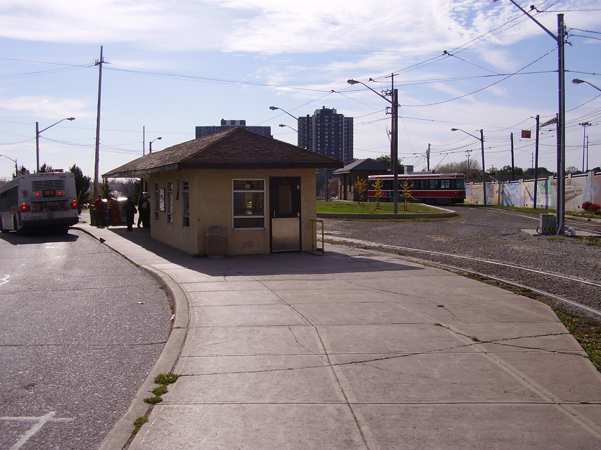 A shot of Long Branch Loop